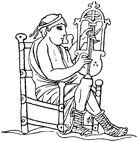 Drawing of a 9th century crwth player taken from Charles the Bald's bible.